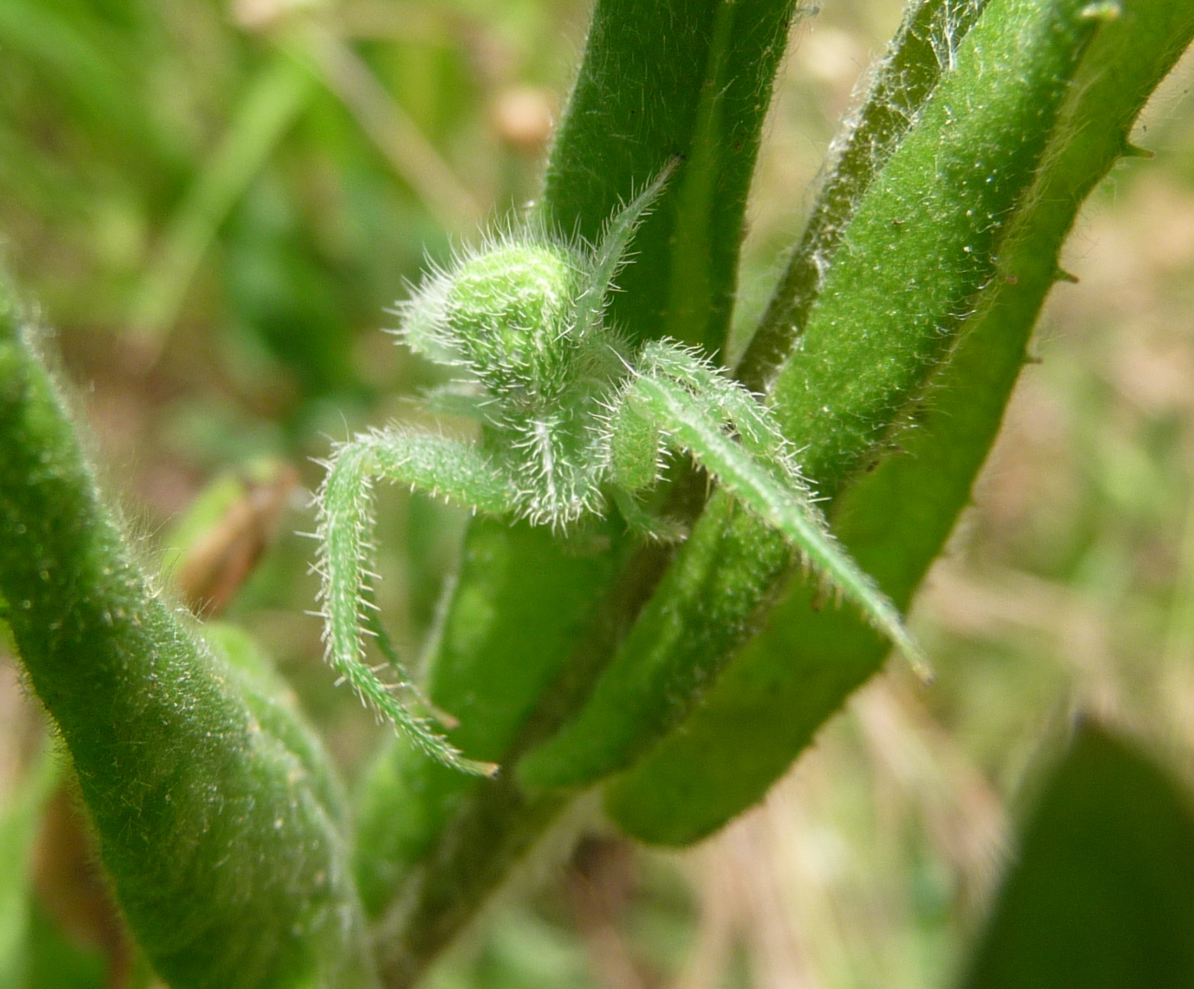 Heriaeus sp., near Livorno, Tuscany, Italy